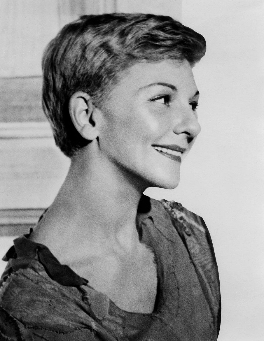 Photo of Mary Martin as Peter Pan from the Broadway production.